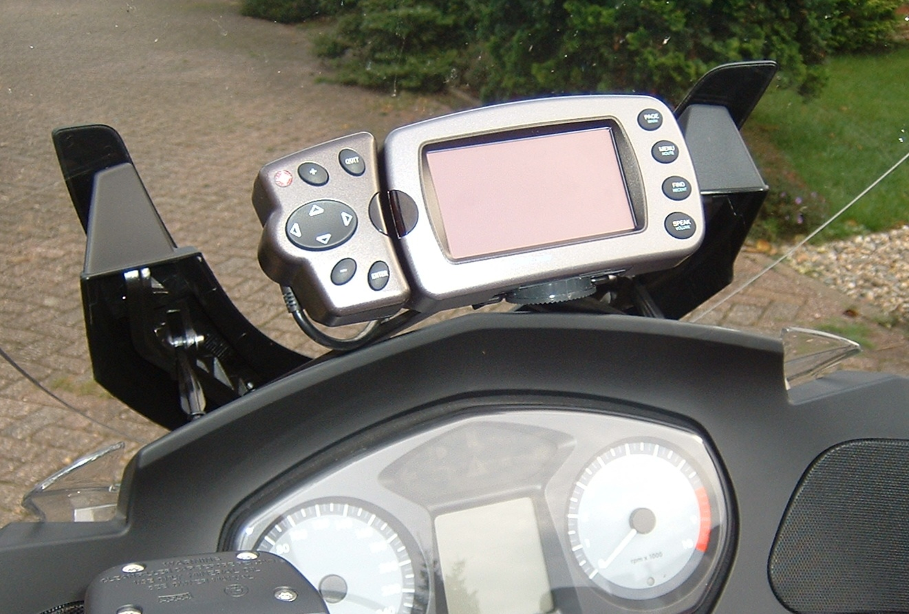 Picture of a Garmin StreetPilot 2610 navigation system plus Perfect Cradle, used on a BMW R1200RT Motorcycle.